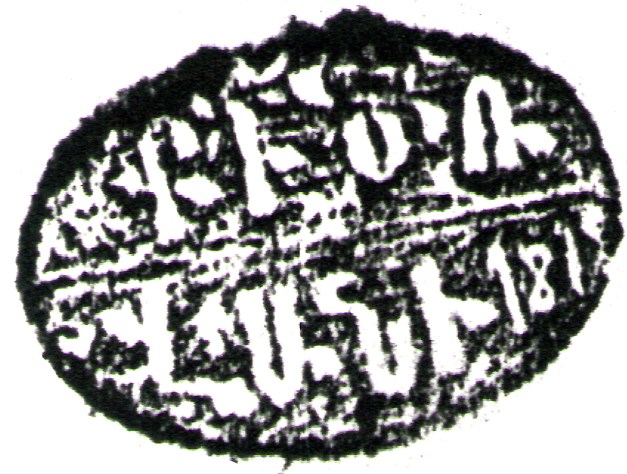 Seal of Prince Vani Atabekian, Lord of Jraberd, Lord of Kusapat